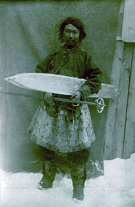 Nivkh hunter, who is wearing traditional fur skirt - kosk, with wooden skies.